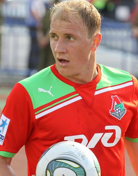 Senijad Ibricic playing for FC Lokomotiv Moscow